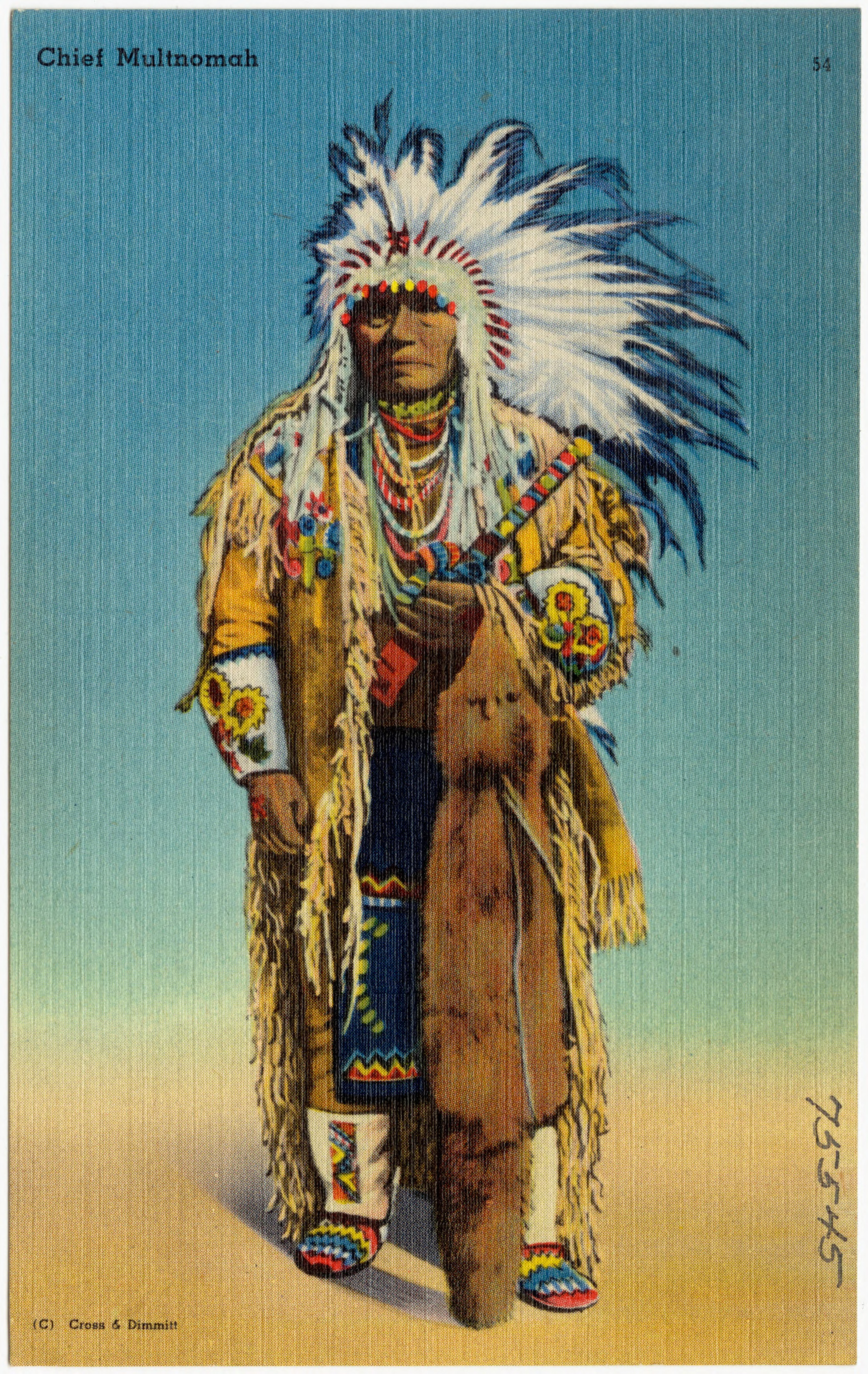 Title: Chief Multnomah Places: Oregon Notes: Title from item. Extent: 1 print (postcard) : linen texture, color ; 5 1/2 x 3 1/2 in. Accession #: 06_10_016975